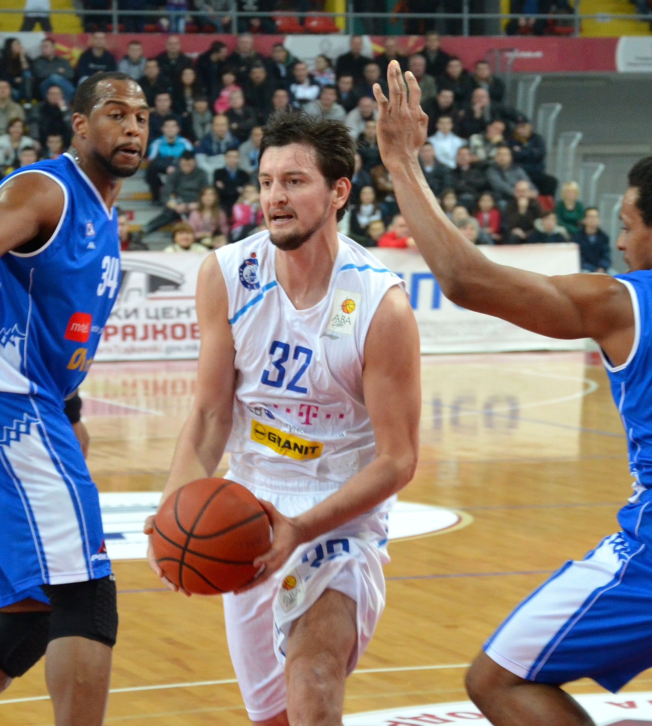 бакиччч